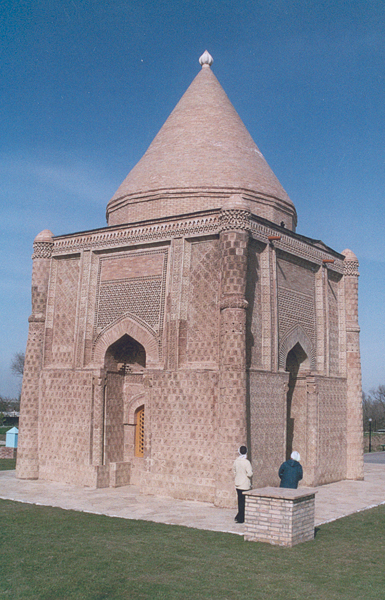 my photo